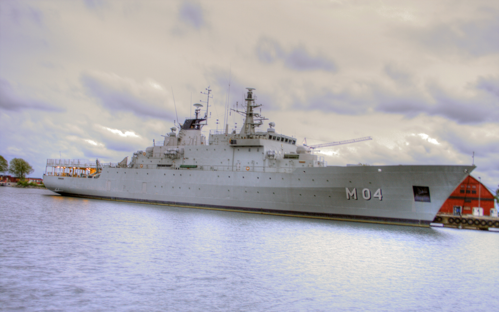 The Swedish ex-Mine layer HMS Carlskrona sitting in Karlskrona Naval Harbour. Originally taken for trying out HDR imaging.